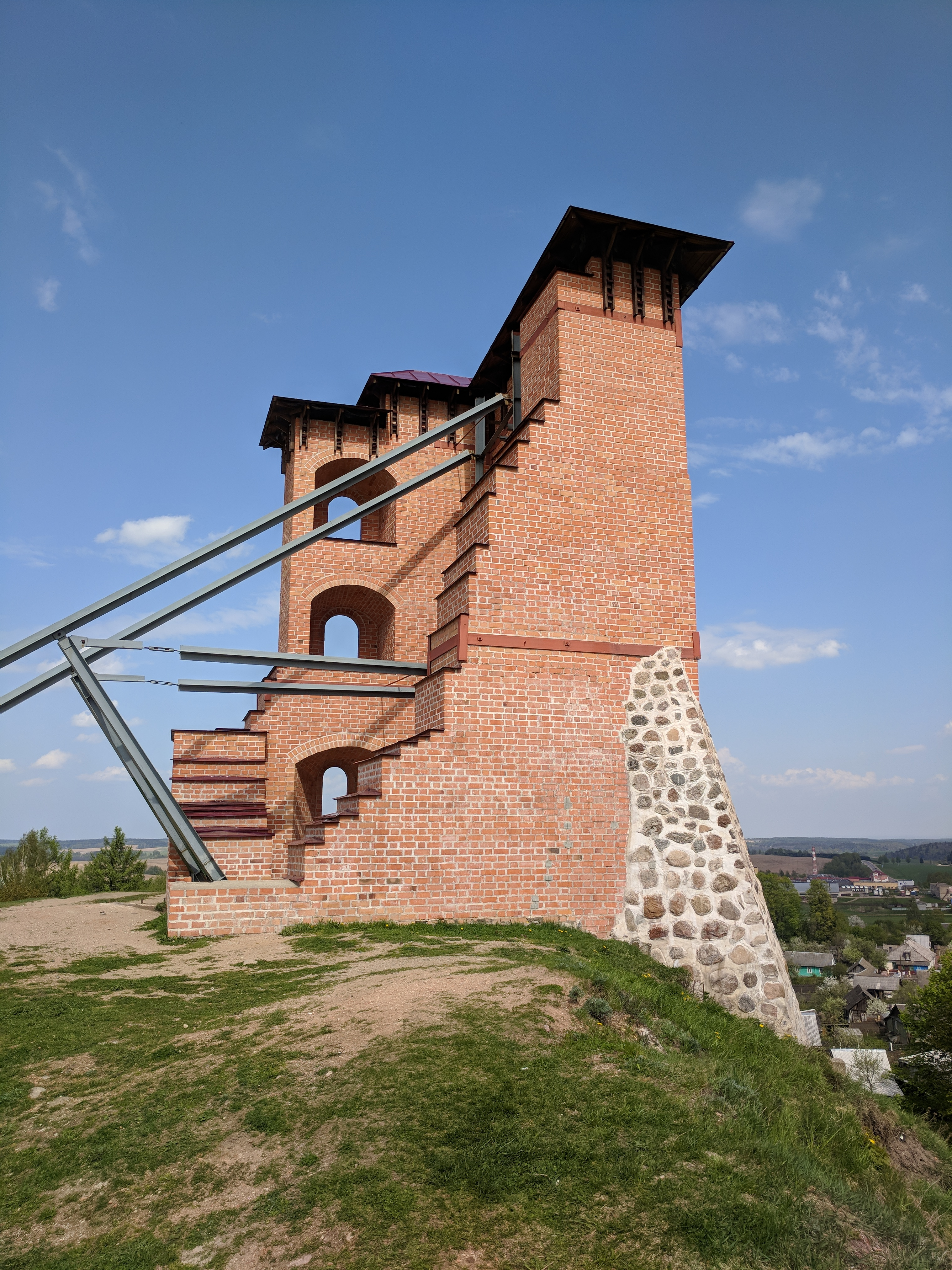 Navahradak Castle